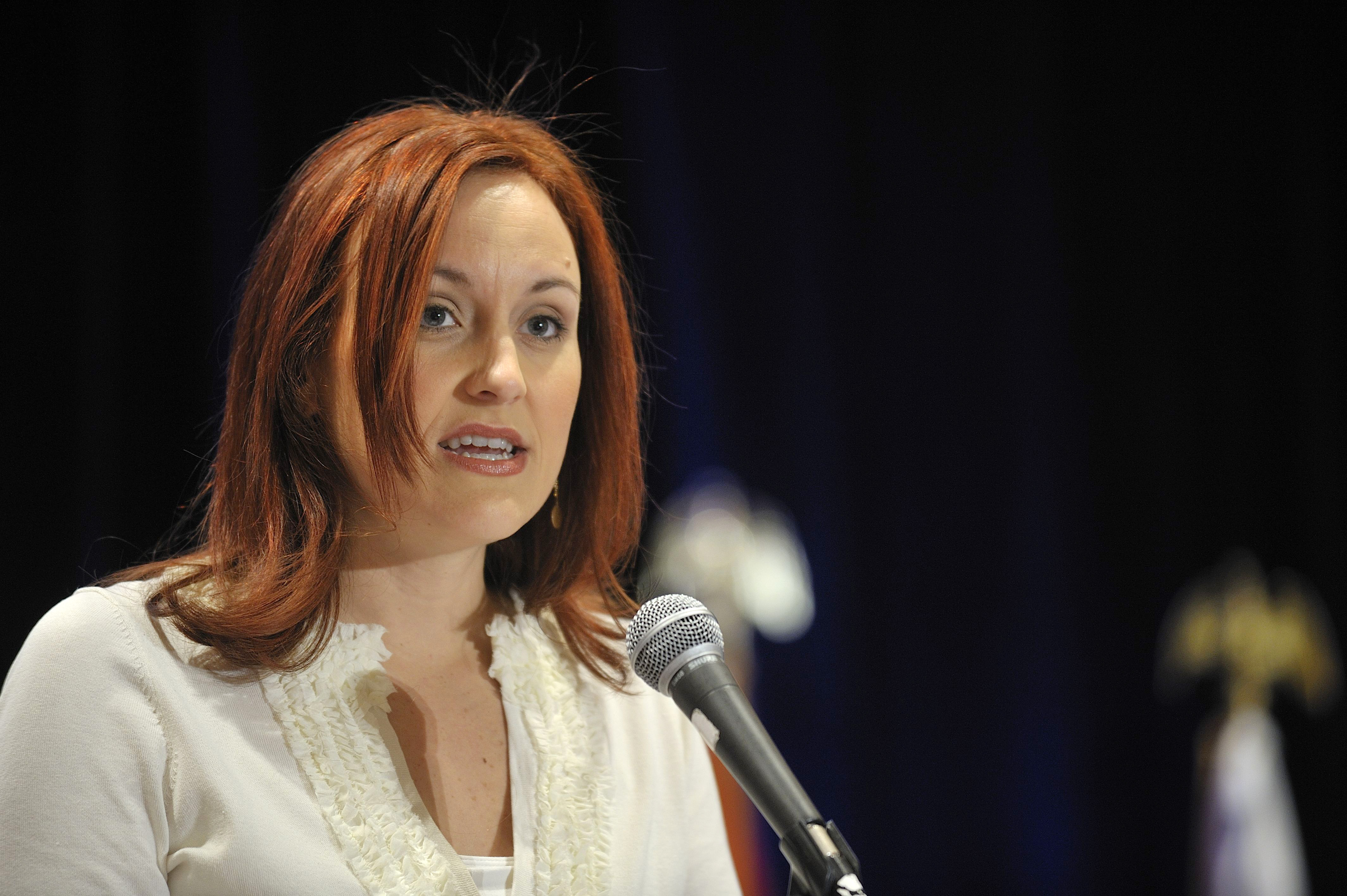 Heather Zichal, Deputy Assistant to the President for Energy and Climate Change.